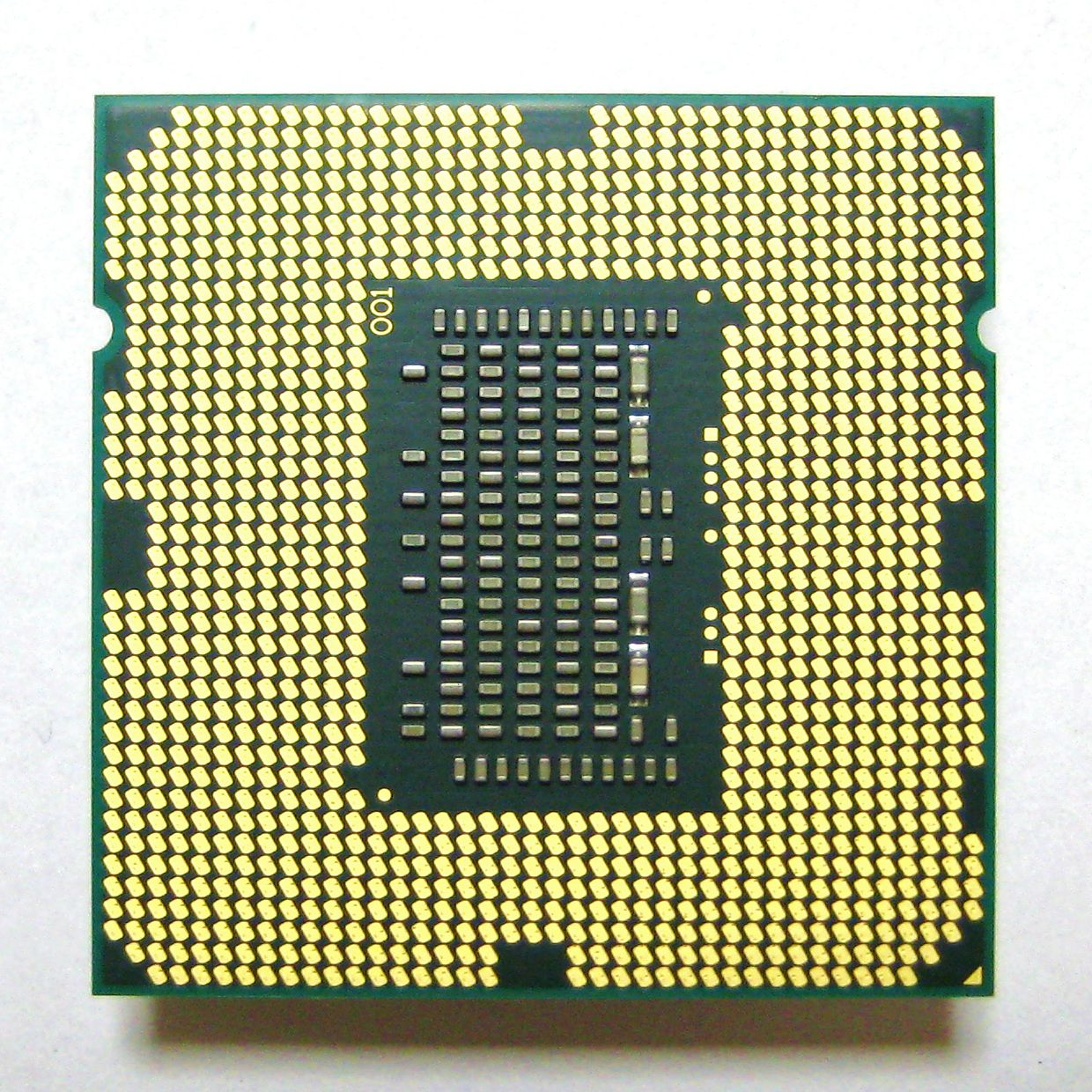 Intel Core i5 750.